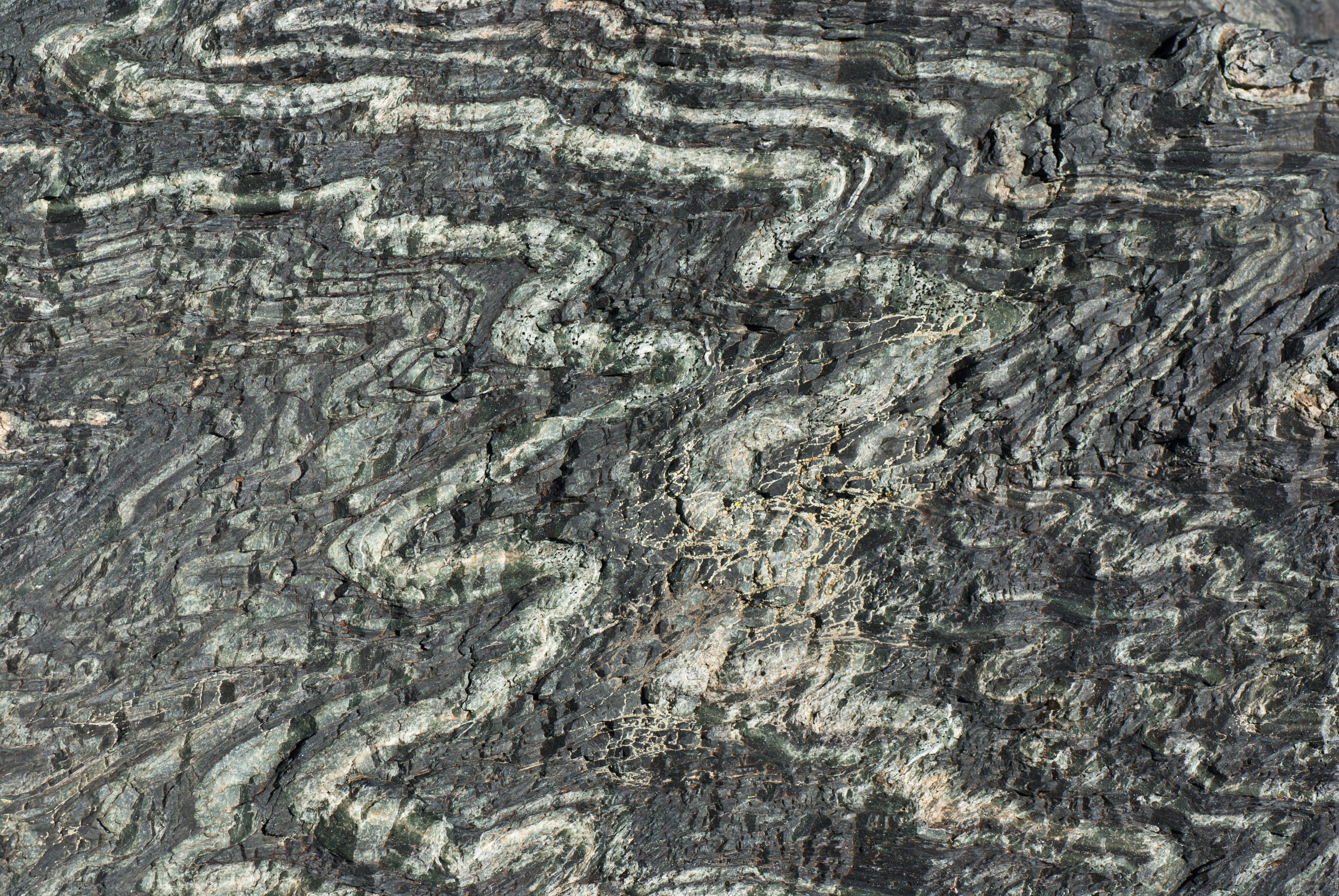 Folded serpentinite, near Geierjoch, Tuxer Alps, Austria (detail 30cm × 20cm)